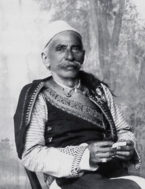 Ded Gjo Luli sitting down